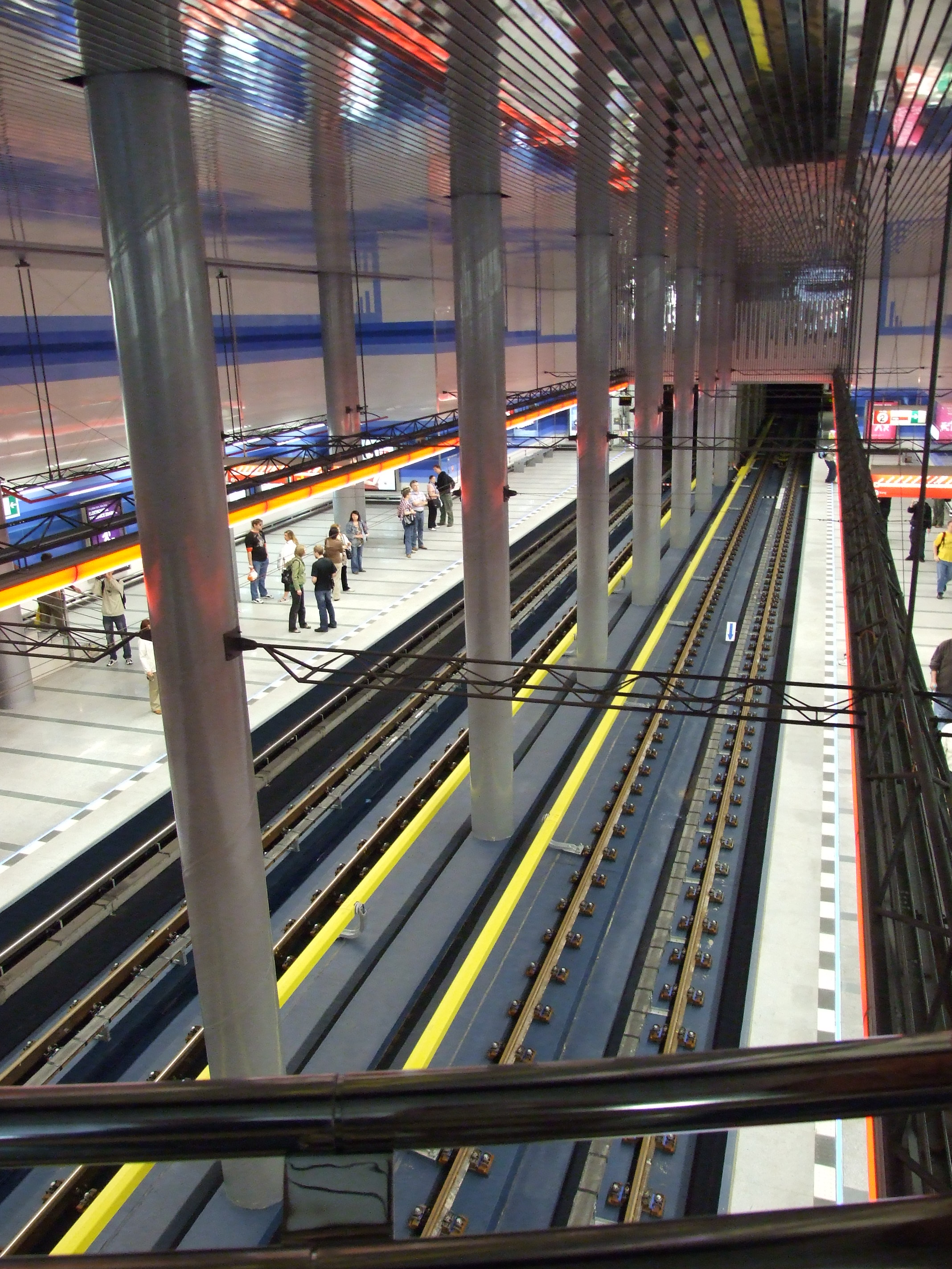 Prosek metro station in Prague, several hours after opening for publichelp